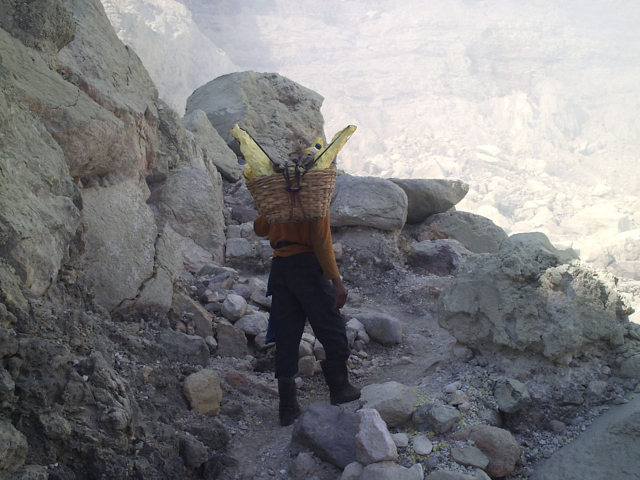 Worker carrying sulfur at the Ijen volcano, Java, Indonesia. Photo taken by User:Doreki from the Romanian Wikipedia.